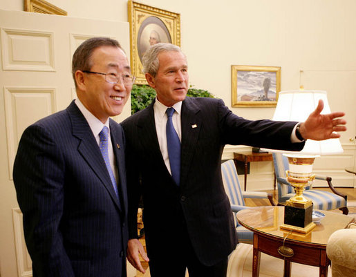 President George W. Bush welcomes United Nations Secretary General Ban Ki-moon into the Oval Office, to discuss issues concerning Darfur, plans for an upcoming Middle East conference, and also United Nation plans in Afghanistan and Iraq.